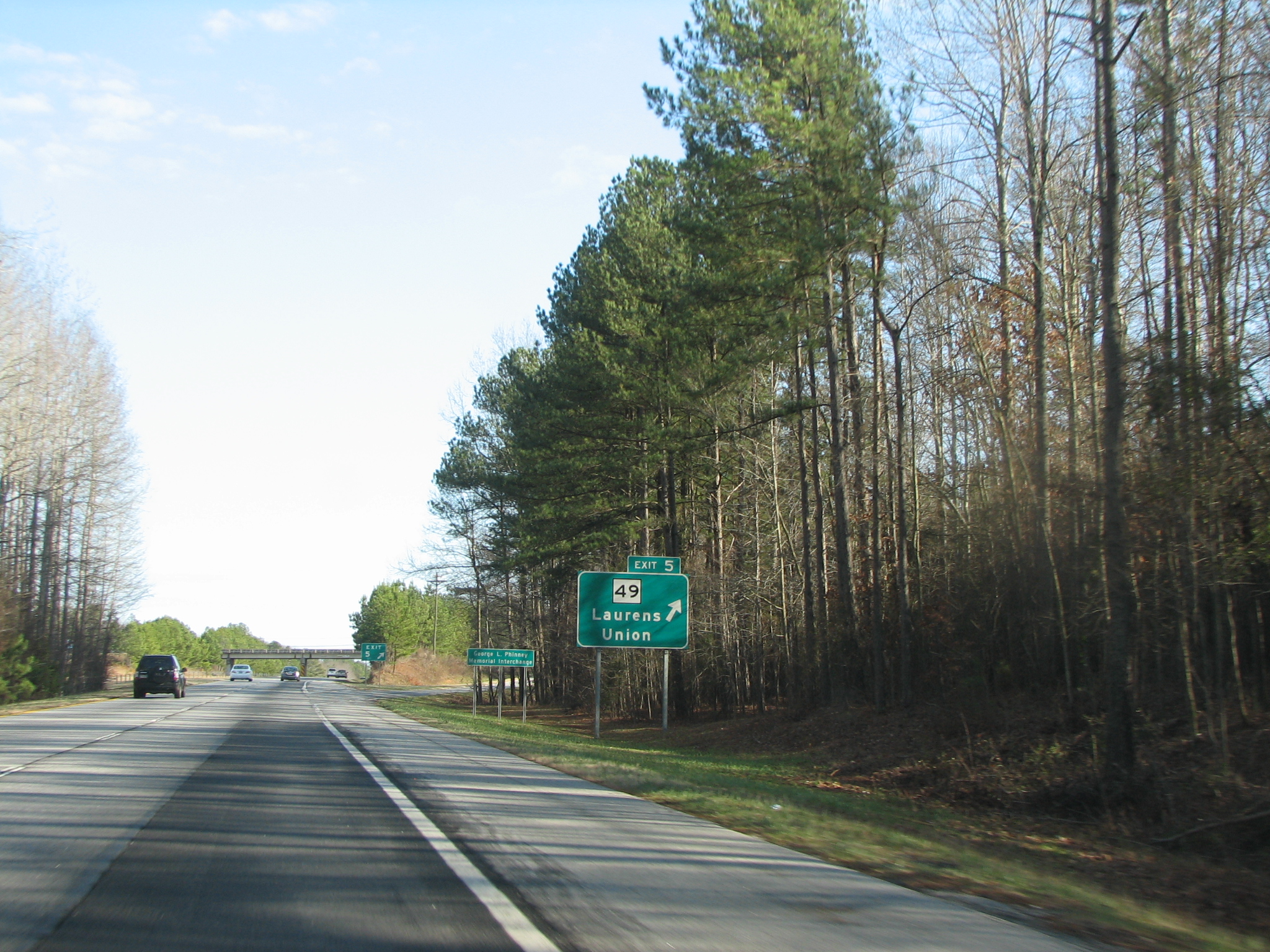 On South I-385 in South Carolina, with an exit sign for SC highway 49, about 4 miles before 385 merges with I-26 (S).